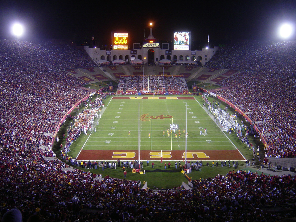 The Los Angeles Memorial Coliseum, home of University of Southern California Trojans football, during a football game between the University of Oregon Ducks and the USC Trojans. The Olympic Torch at the top of the peristyle, a legacy of the stadium's two Olympic games, is always lit during the 4th quarter. The jerseys at the far end represent each of USC's Heisman Trophy winners; those numbers have been retired and the design reflects the design of the USC jersey during the player's time at the school. USC won 35-10 in front of a crowd of 92,000.